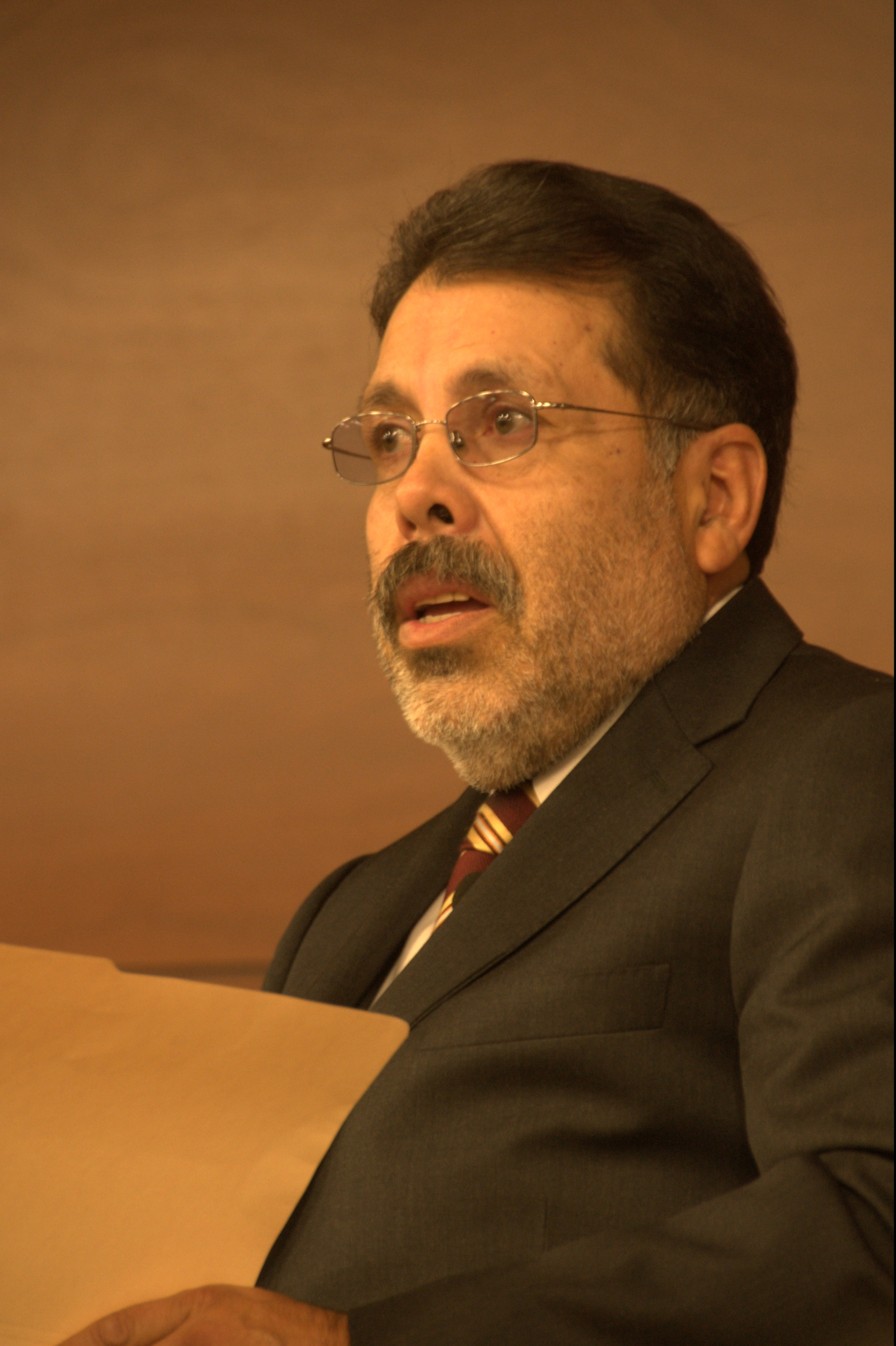 José Fernández Santillán in the presentation of the book “Calderón de cuerpo entero” by Manuel Espino at ITESM- Campus Ciudad de México